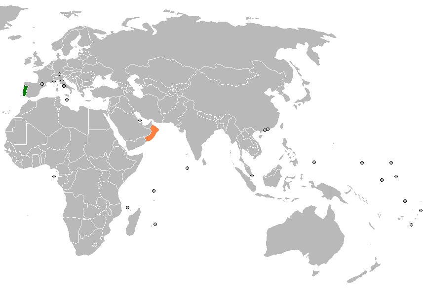 Oman-Portugal locator map